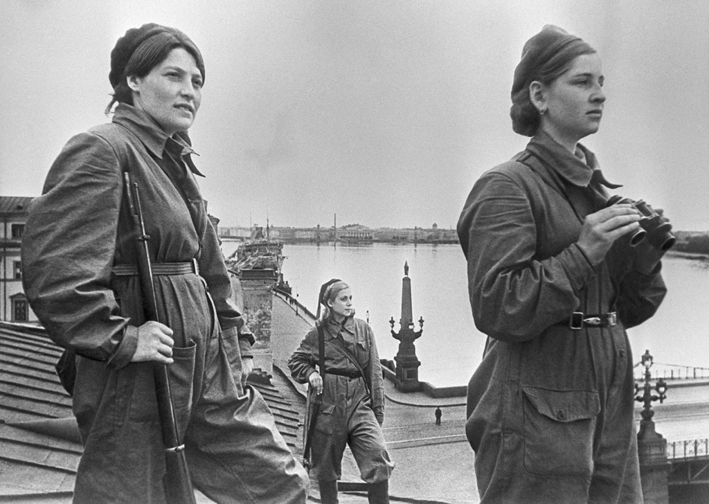 “Girls on duty”. Girls on duty on the roof in besieged Leningrad. Air defense.